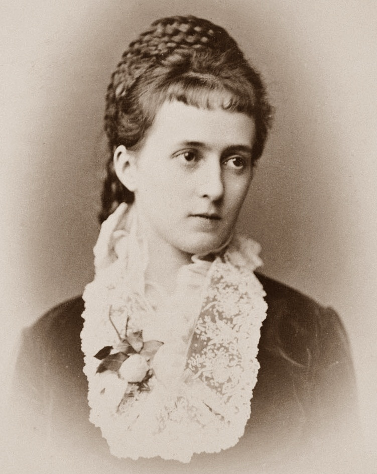 Marie Jose, Duchess Karl Theodor in Bavaria